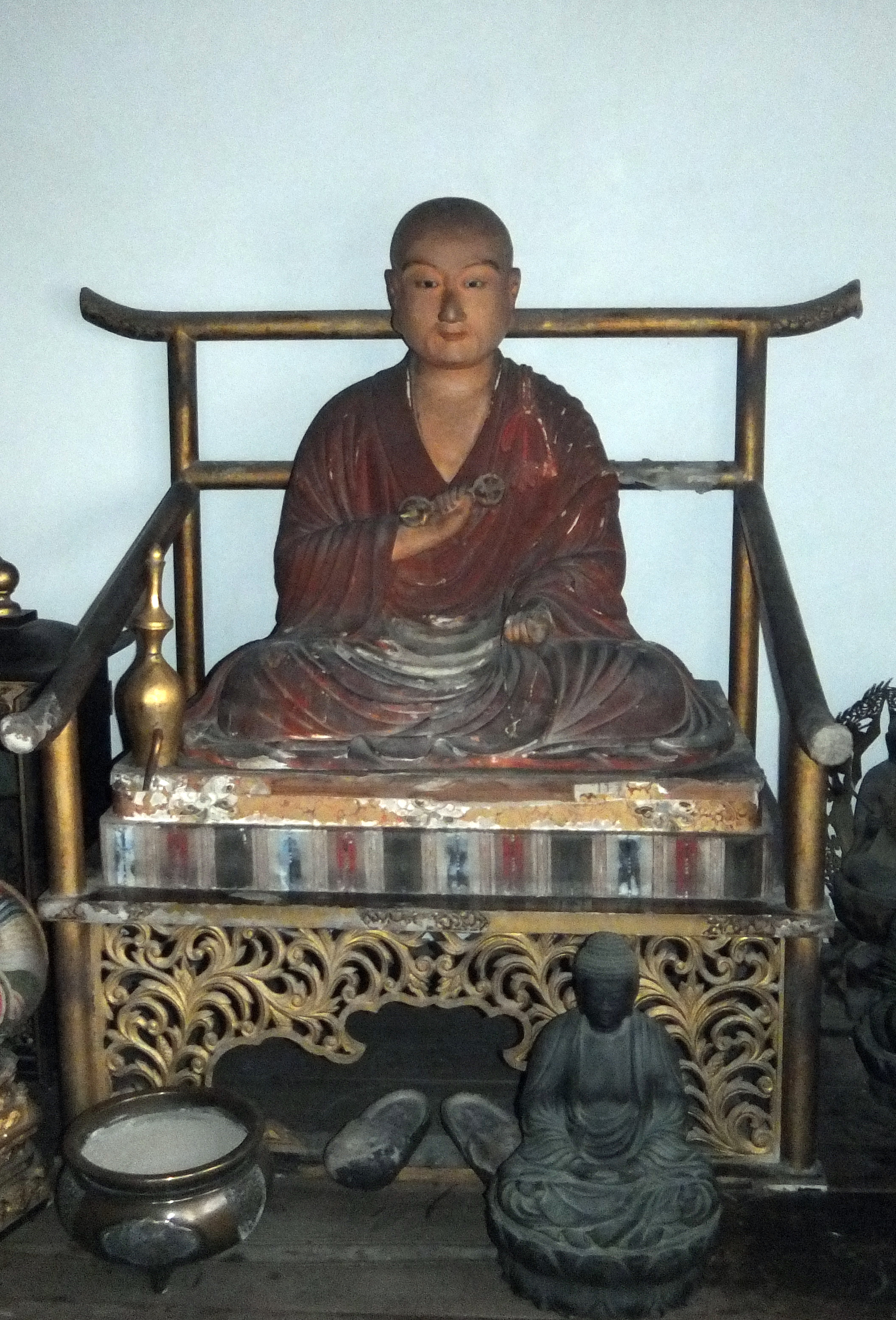 Sitting statue of Kūkai (774–835), a Japanese monk, scholar, poet, and artist, founder of the Shingon or "True Word" school of Buddhism. Chikurin-Temple, Yoshino-san (Nara prefecture, Japan). Statues of Kukai in this pose can be found in various sizes all over Japan.